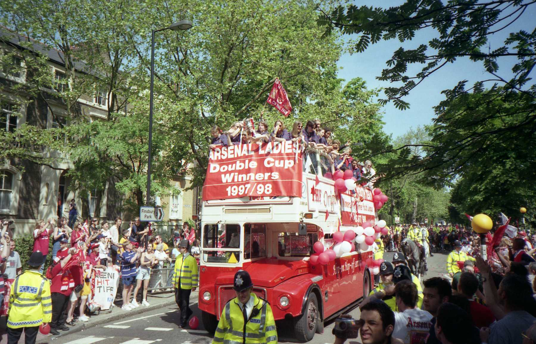 Arsenal L.F.C. celebrate their double winning season of 1997–98 in which they won both the FA Women's Cup and the FA Women's Premier League Cup with an open-top bus tour of Highbury and surrounds.